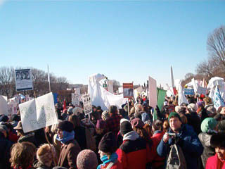 January 18, 2003 antiwar protest in Washington, D.C.